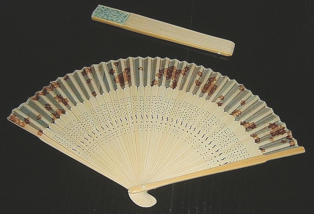 Japanese fans. A folded fan and the other open.